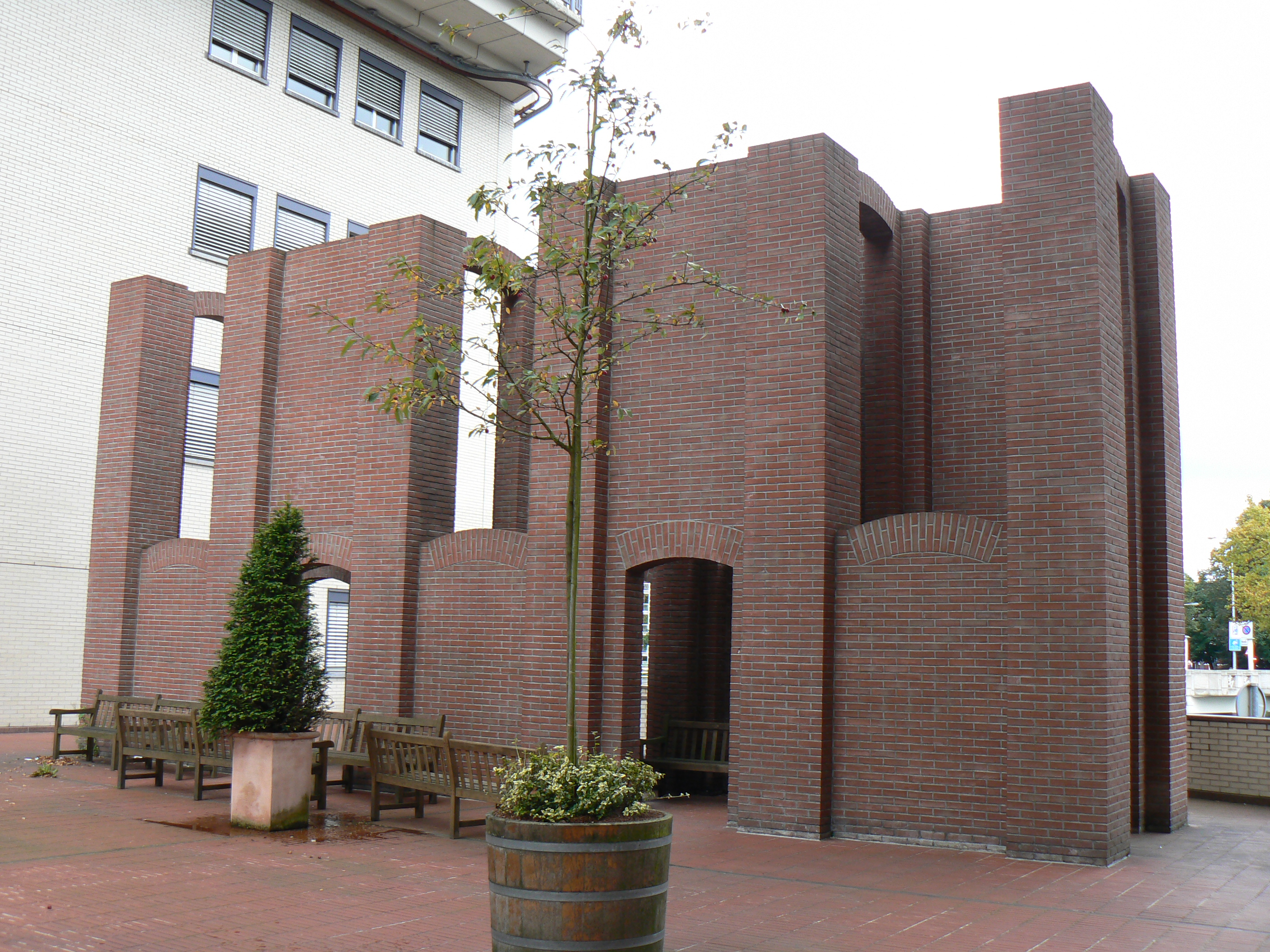 Per Kirkeby in Groningen/The Netherlands.